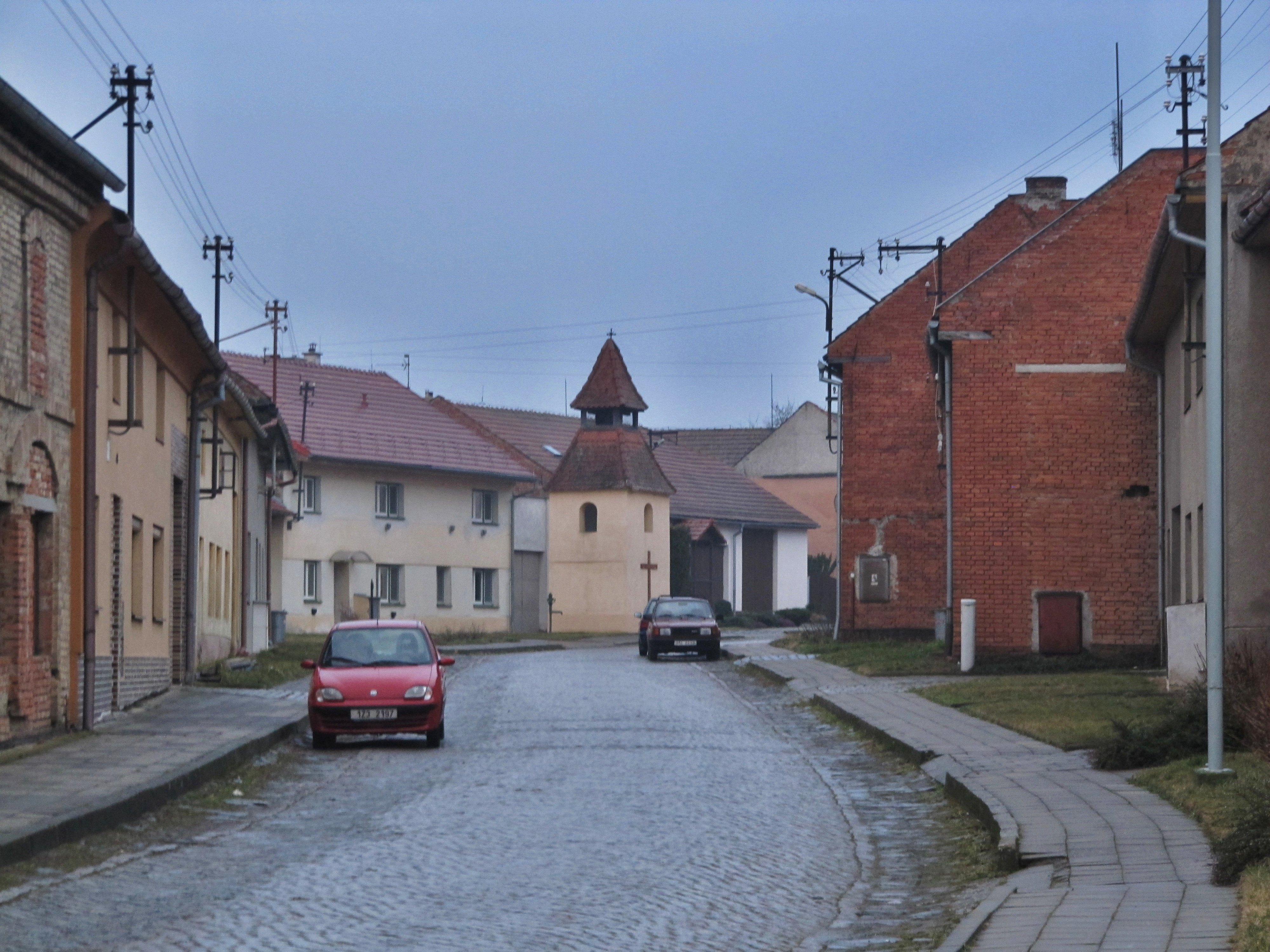 Lutopecny, Kroměříž District, Czech Republic.